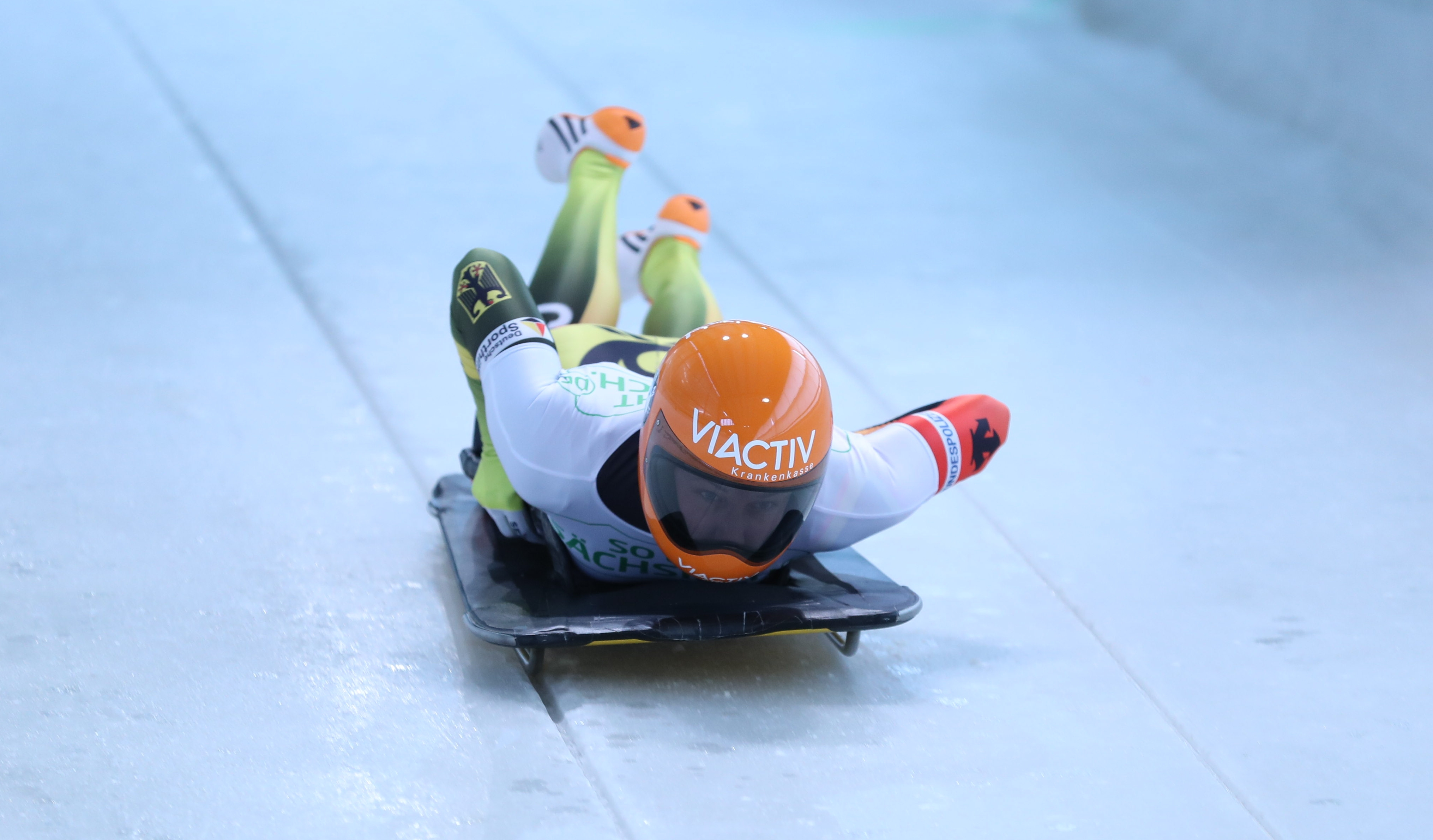 1st run at the Women's competition at the German Skelton Championships 2018/19 in Altenberg